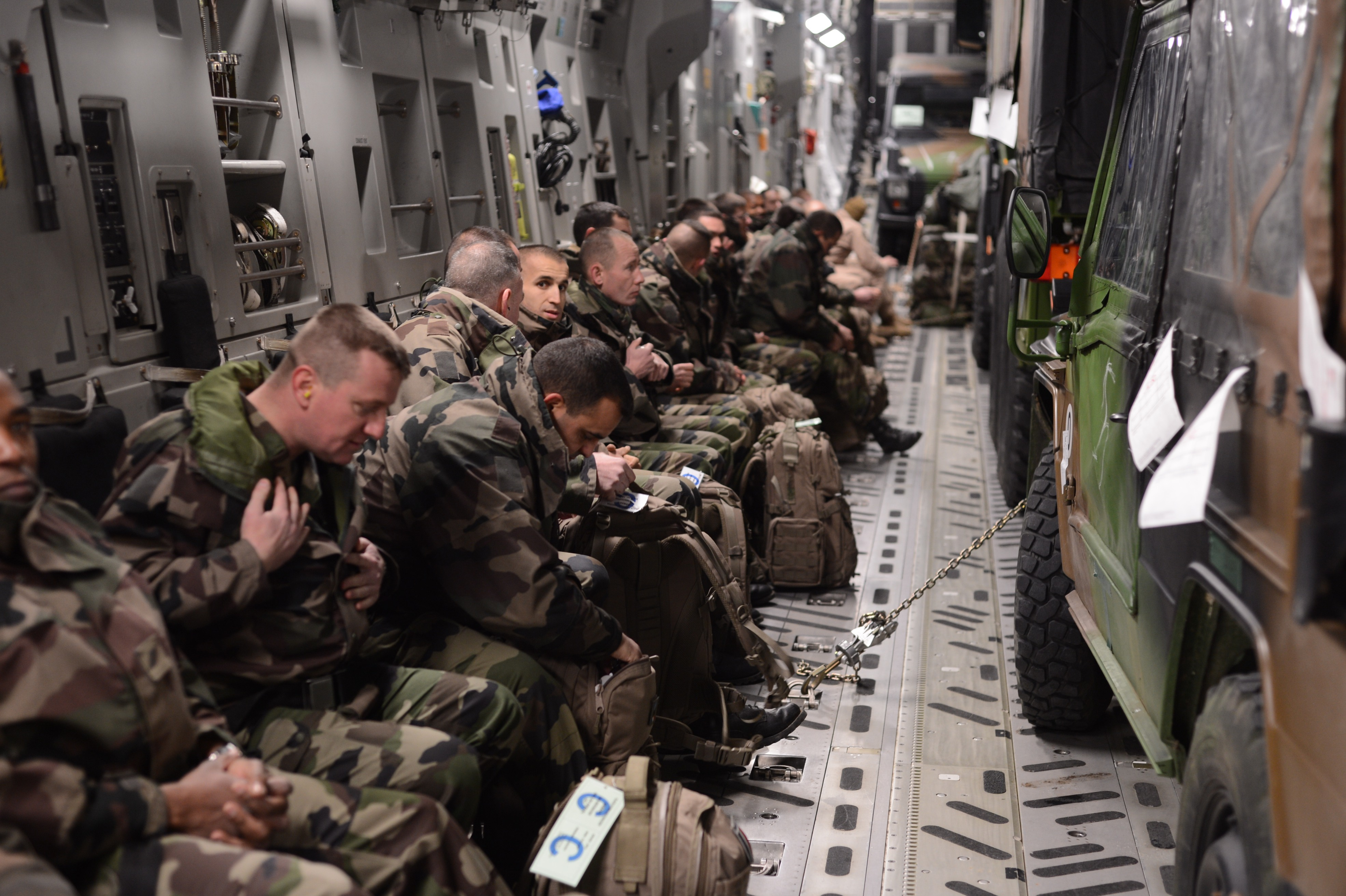 In this photo taken in Istres January 21, French troops prepare for take-off inside a U.S. Air Force C-17 Globemaster III cargo aircraft in Istres, France. The C-17 can carry up to 170,900 pounds of cargo, and can be configured for a variety of loadouts, including aeromedical evacuation, cargo transportation and passenger movement.